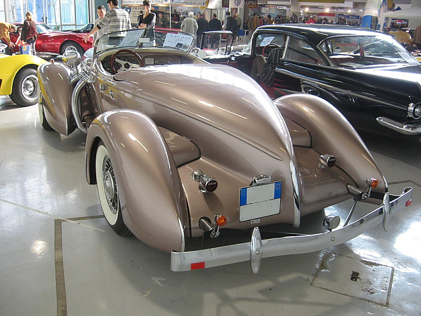 Subject:Replica of Auburn 851 Boattail Speedster Author:Luc106 Date:March 15th, 2007 Event:Old Timer Show 2008 Place/Country: Forlì, Italy I release all rights in the public domain.